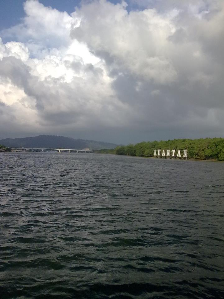 Sungai Pahang